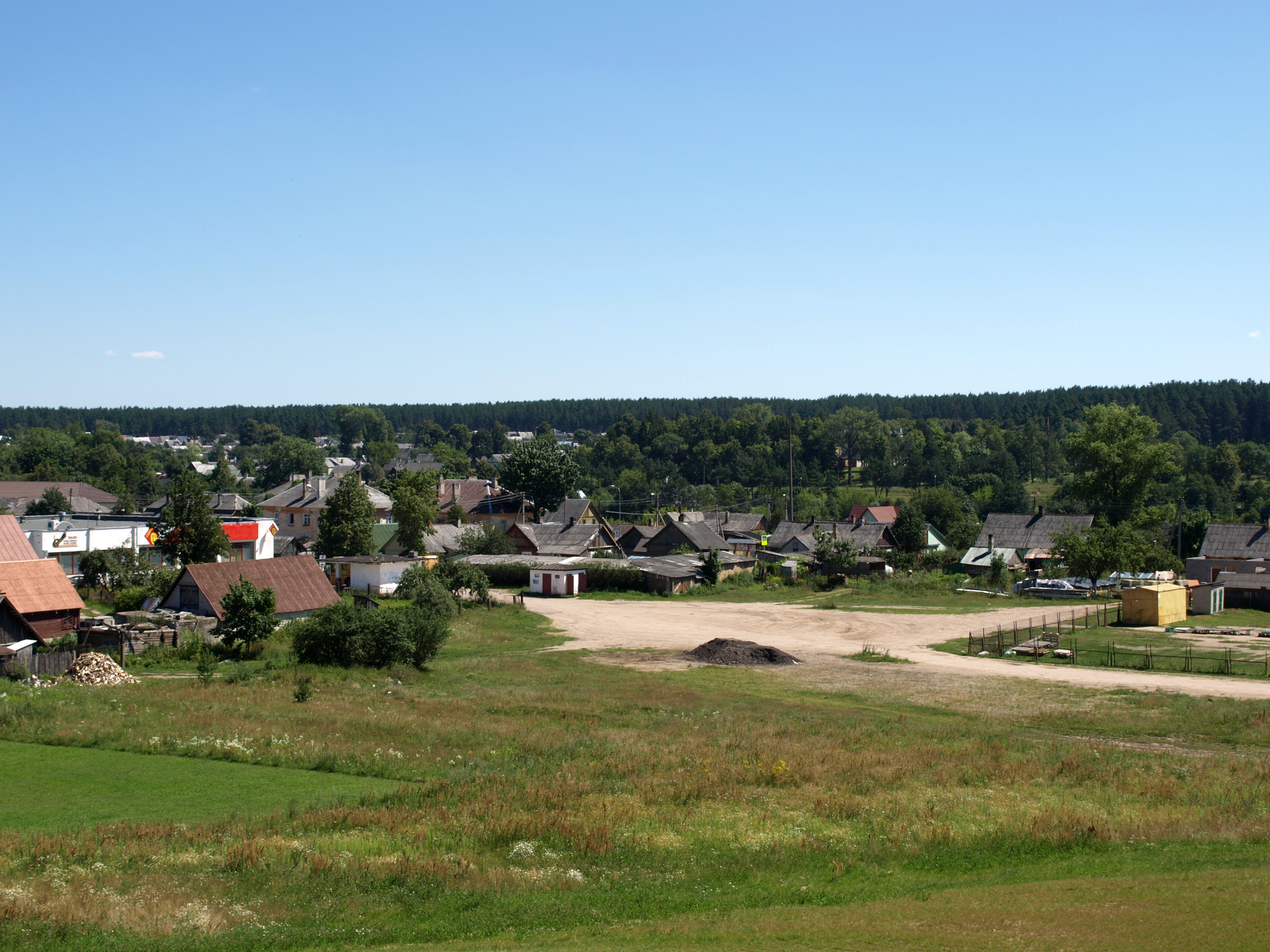 Pabradė, Švenčionys district, Lithuania